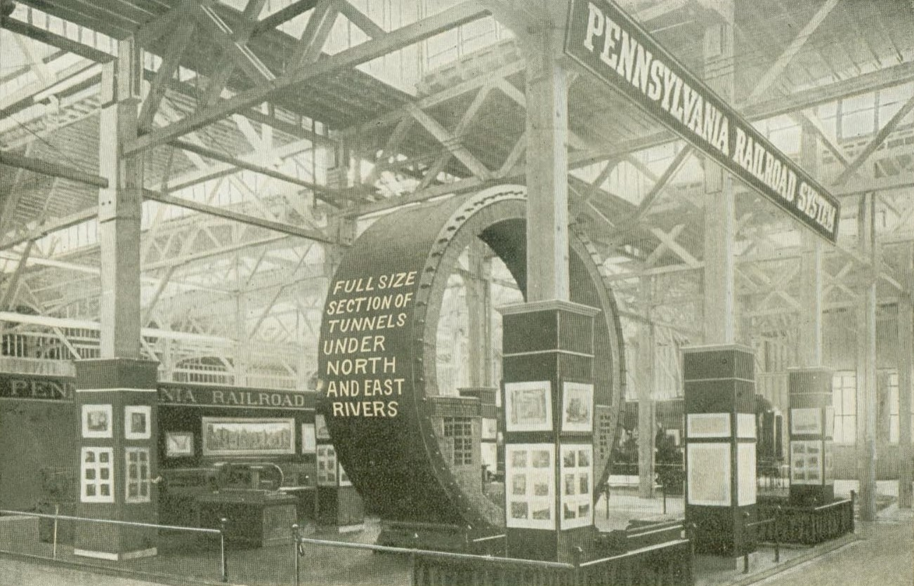 Postcard: Pennsylvania Railroad System exhibit at the Jamestown Exposition in 1907; published by the Artad Press, according to picture of other side of the card, which also has a Pennsylvania Railroad logo, indicating the postcard was printed for the railroad.